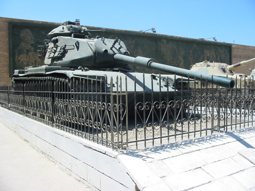 M60 Egyptian army 1973.